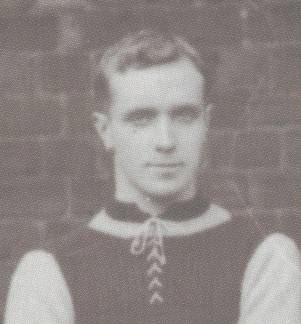 Howard Spencer cropped from the Aston Villa team photo of 1897. Image believed to be in the public domain due to age